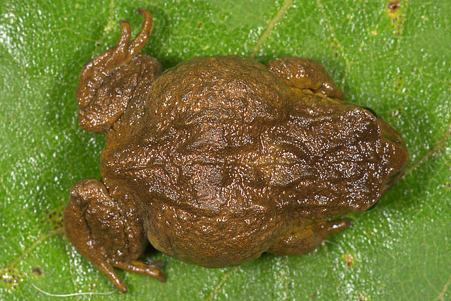 Bryophryne bustamantei